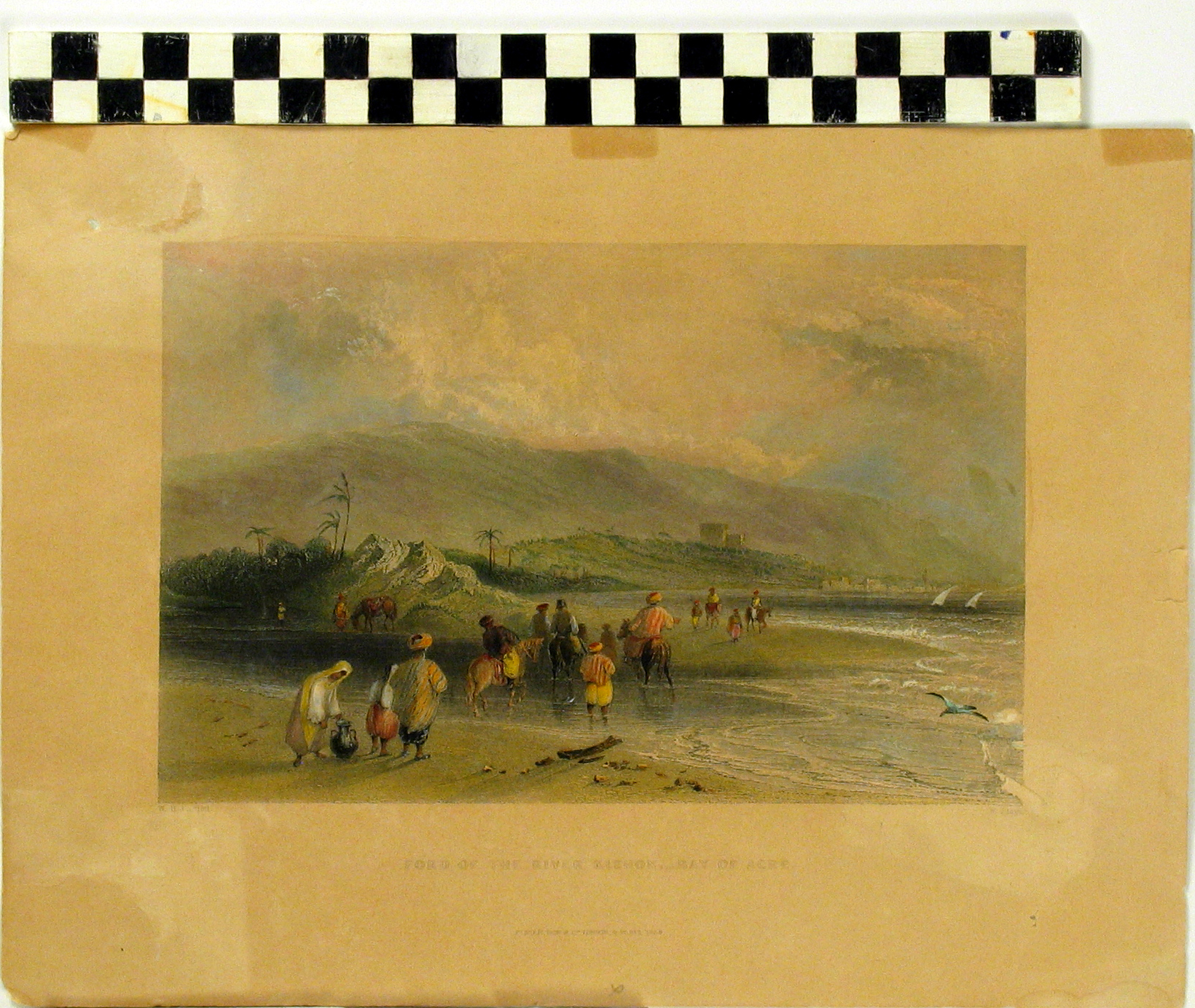 Tell Abu Hawam - William Henry Bartlett picture תל אבו הואם - ציור של וויליאם הנרי ברטלט Inscription on the painting: "FORD OF THE RIVER KISHON, BAY OF ACRE" This image was taken as part of the Elef Millim project trip and within the Wikipedia Loves Art project to the National Maritime Museum in Haifa in the northern part of Israel, which was held on Friday, 22nd January 2010. To view all images uploaded as pary of the Elef Millim Project